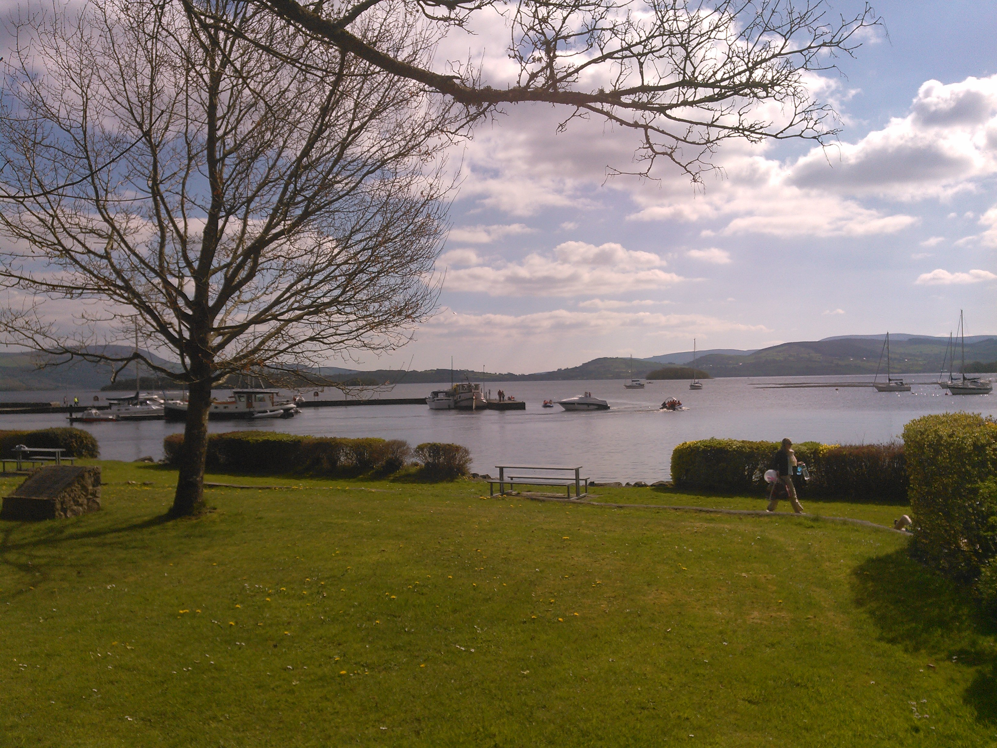 Mountshannon harbour on a grand soft day